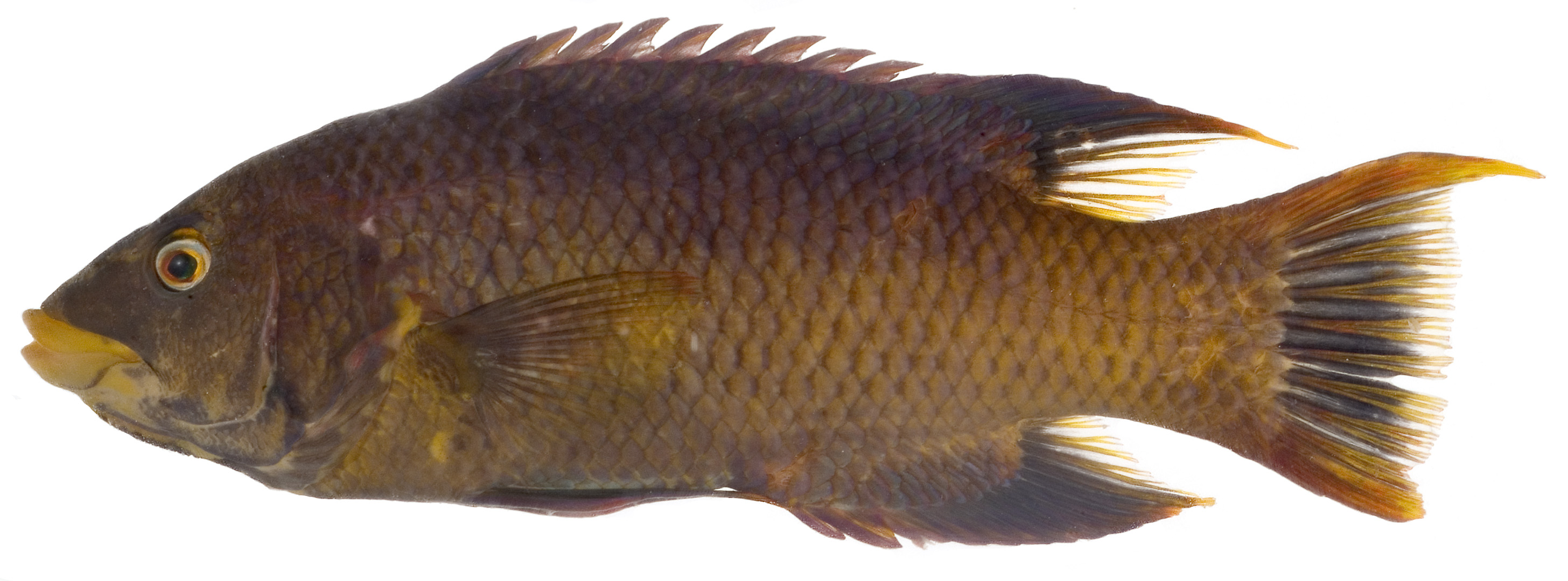 Description: The standard length of the Spanish hogfish is 190 millimeters. This image was taken with a Fujifilm FinePix S3 Pro 12.3-megapixel camera with a 105-millimeter f/2.8D AF Micro-Nikkor lens and dual Nikon SB28 flash units. Creator/Photographer: Belize Larval-Fish Group 2005 The Division of Fishes of the Smithsonian's National Museum Natural History has sent several teams to Belize in order to photograph larvae in the field. The 2005 team included Julie H. Mounts and Carole C. Baldwin from April 20 through 27; Mounts, David G. Smith, and Lee A. Weigt from April 27 through May 4; and Smith and Weigt from May 4 through 11. Medium: Digital photograph Geography: Belize Date: 2005 Persistent URL: [1] Repository: National Museum of Natural History, Division of Fishes Image ID: P-311, DMSO-5283